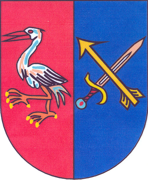 Municipal coat of arms of Neděliště village, Hradec Králové District, Czech Republic.